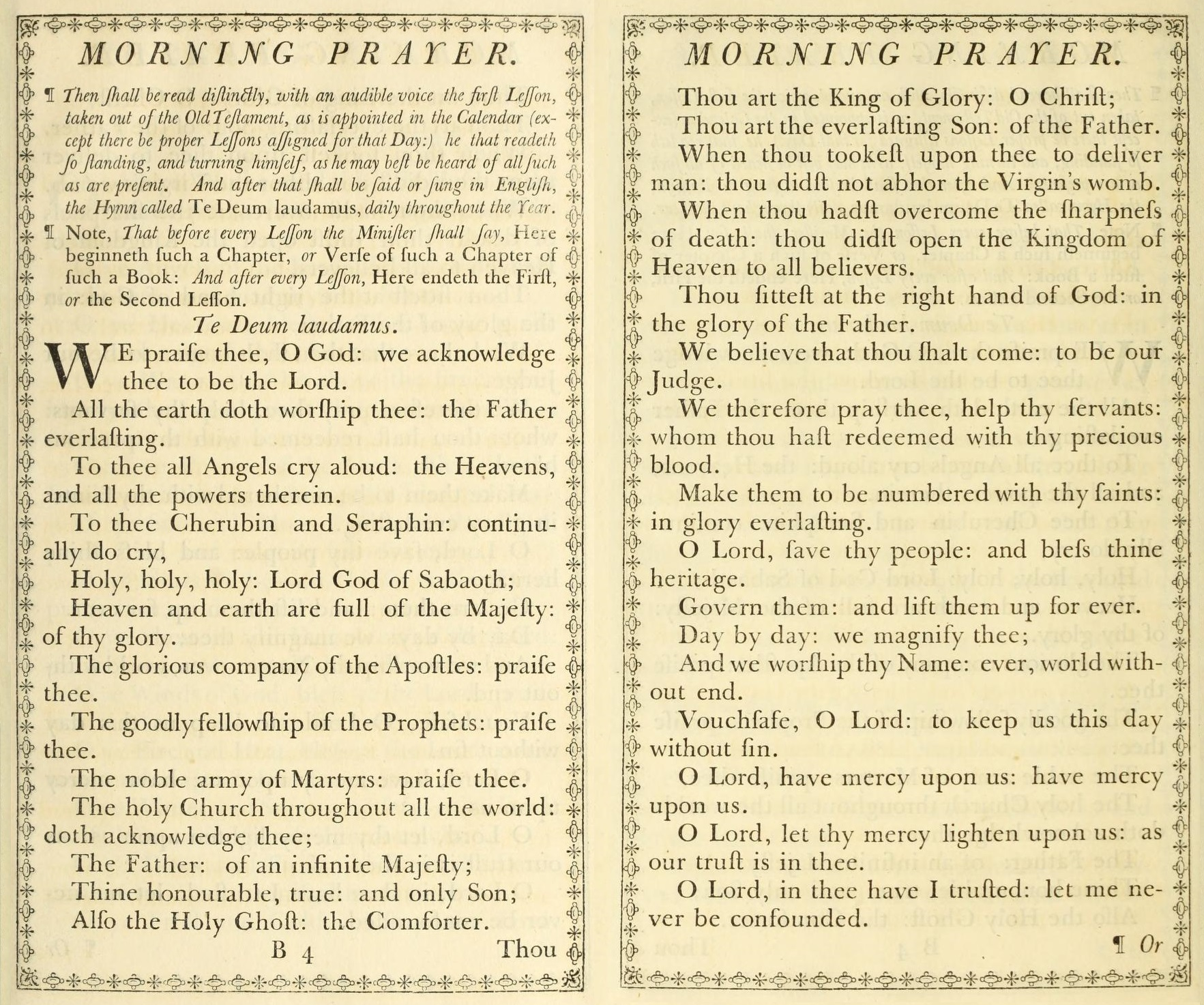 Book of Common Prayer (Baskerville 1760): Te Deum